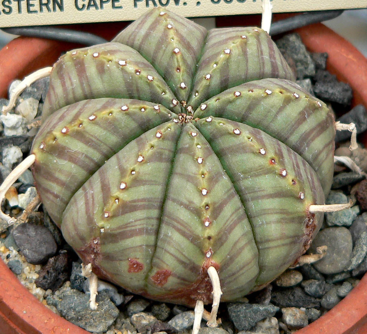 Photo of Euphorbia meloformis at the University of California Botanical Garden